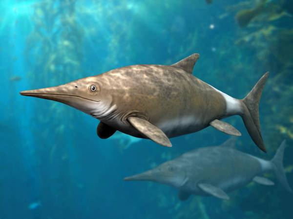 Life reconstruction of Brachypterygius extremus